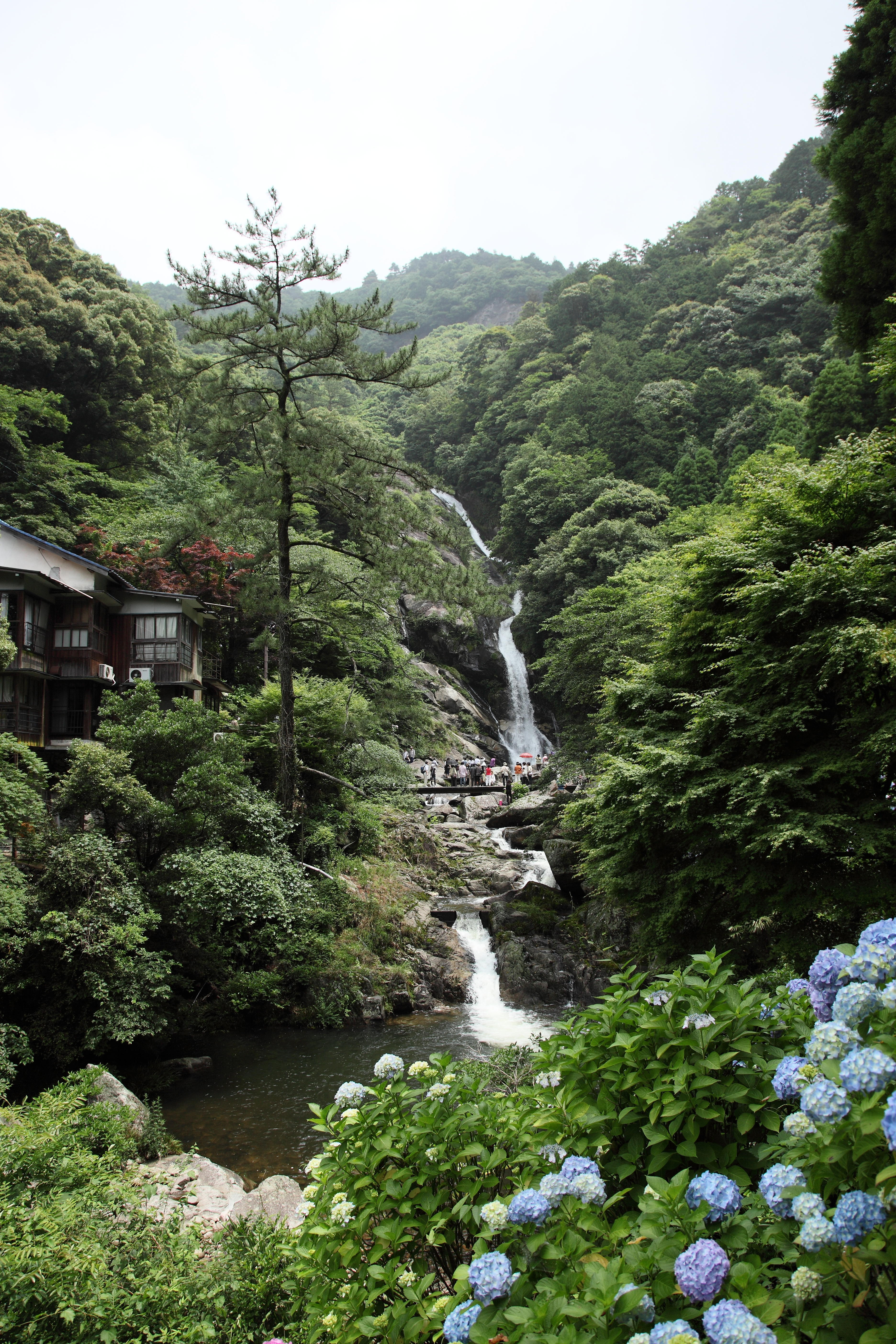 "Mikaerinotaki Fall" and hydrangea, in Ouchi, Karatsu City, Saga Prefecture, Japan.